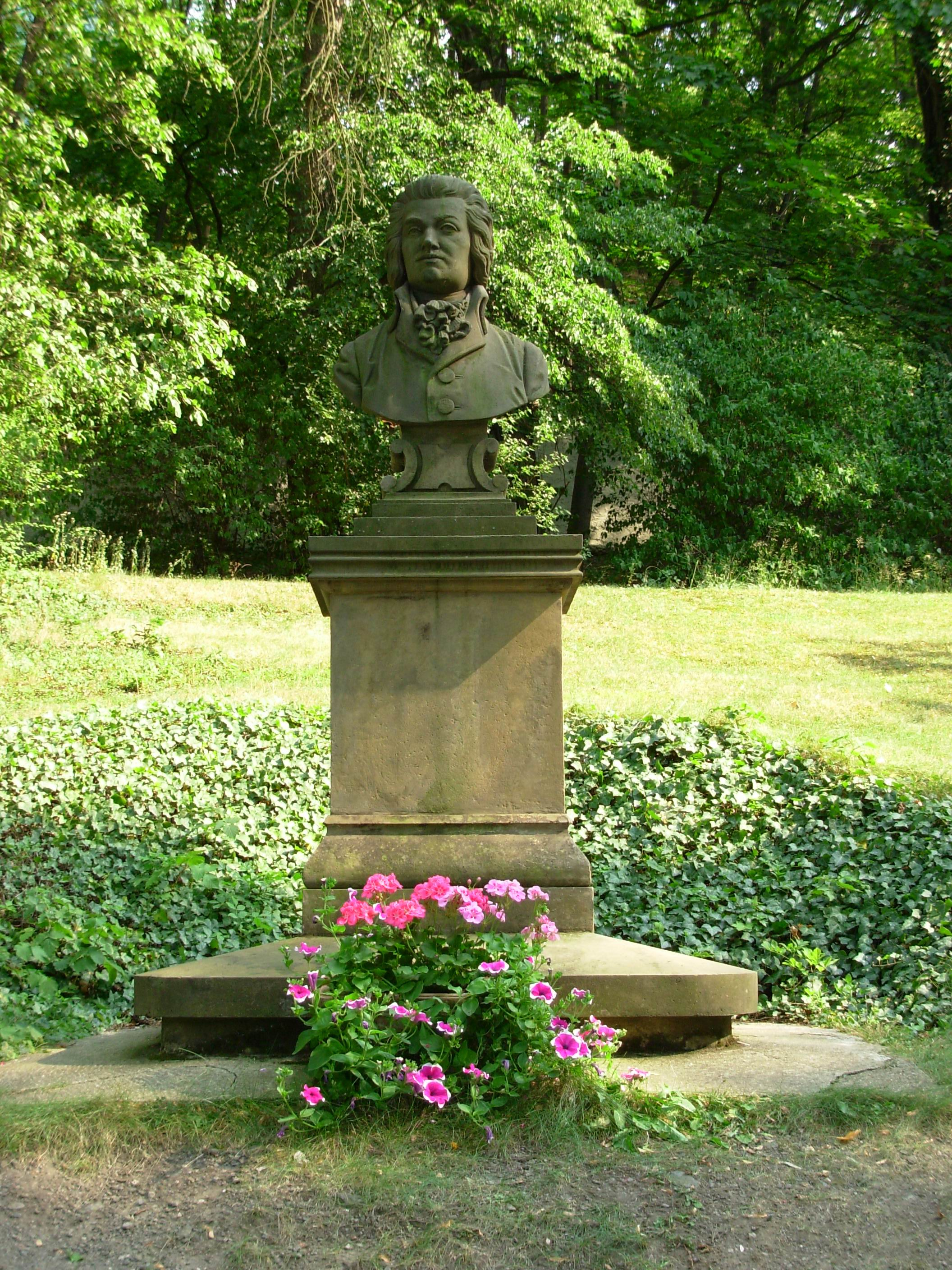 statue of W. A. Mozart in front of Museum of W. A. Mozart and the Dušeks in Bertramka